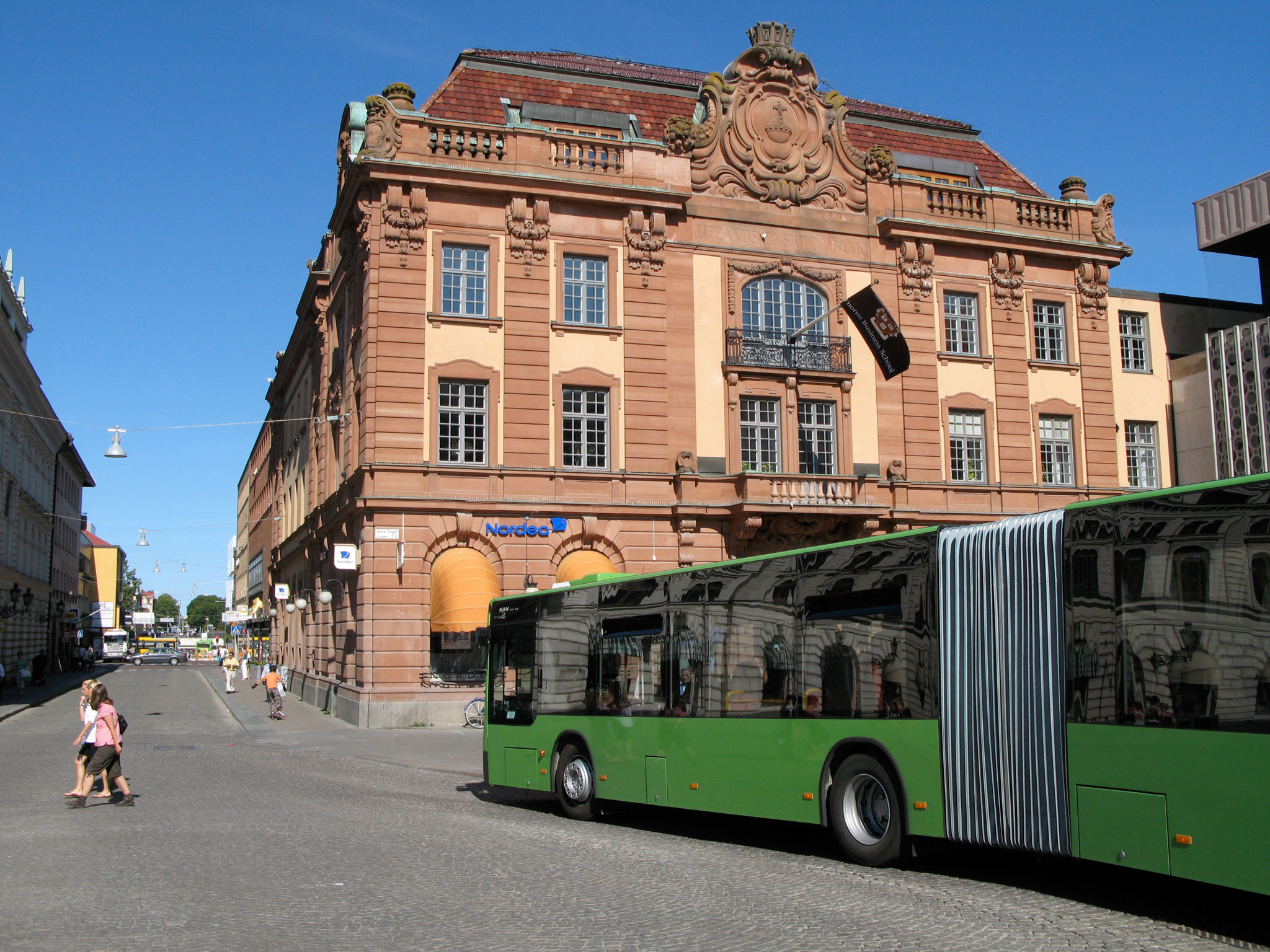 Bus in Stora Torget (‘Great Square’), Uppsala, Sweden